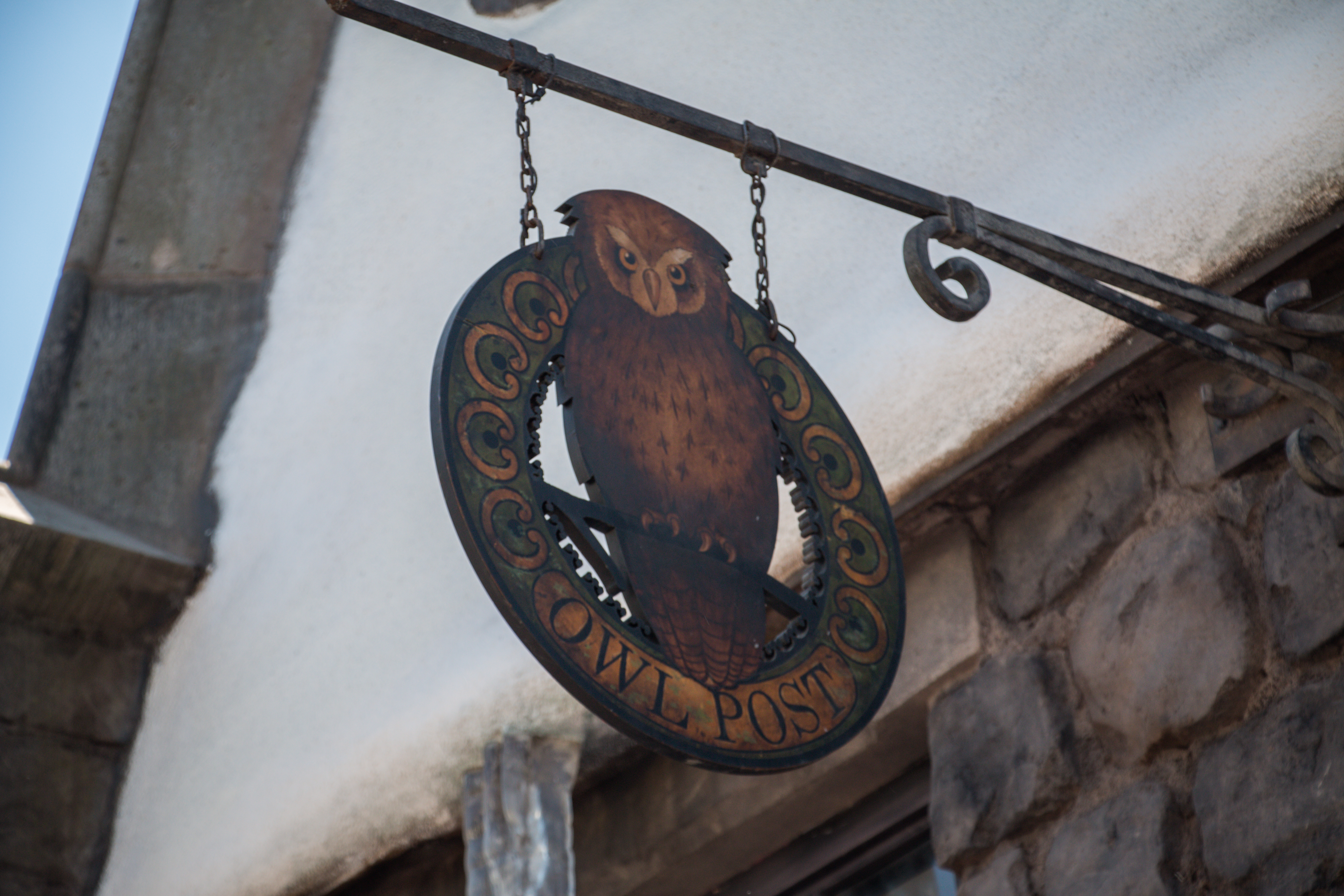 A store sign in Hogsmeade at the Wizarding World of Harry Potter at Universal Studios Hollywood.